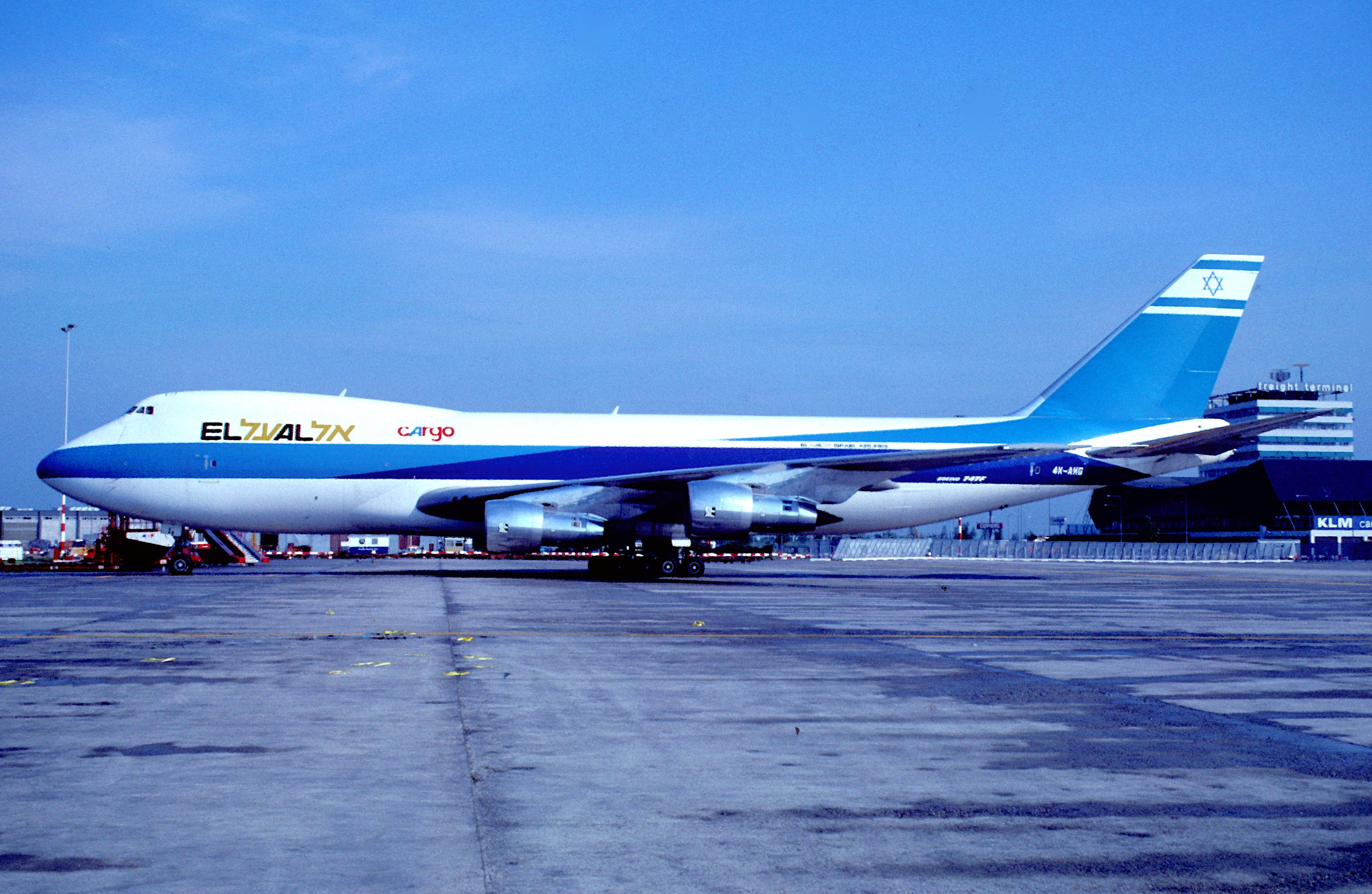 This Cargo 747 crashed on October 4, 1992 into a apartment building at Amsterdam's suburb Bijlmermeer after losing engines 3 and 4 shortly after take off. Four Israeli crew and 47 people in the building lost their lives in that accident.